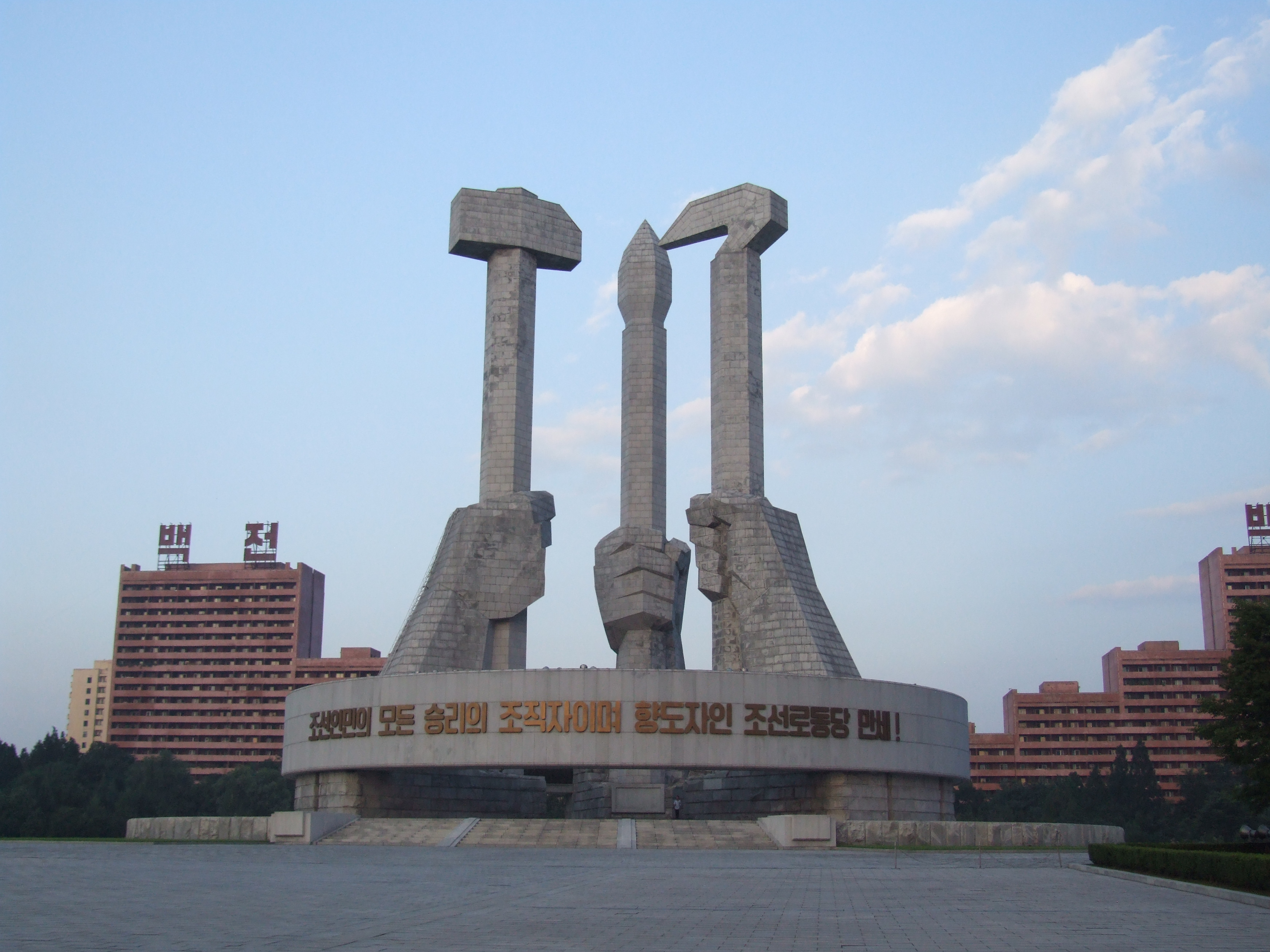 Monument to the Founding of the Worker's Party 01